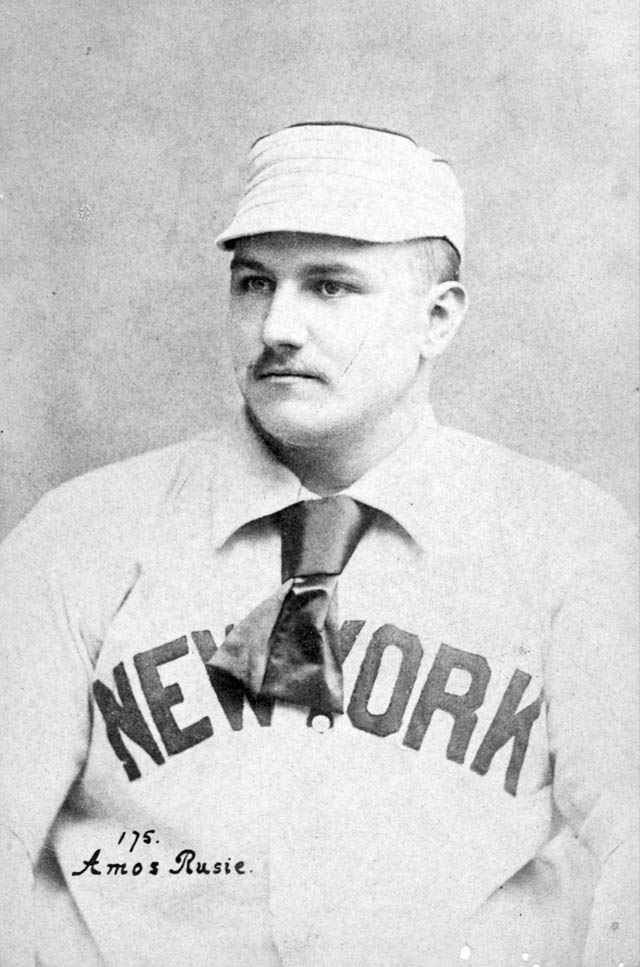 Cropping of the File:AmosRusieNewsboy.jpg.